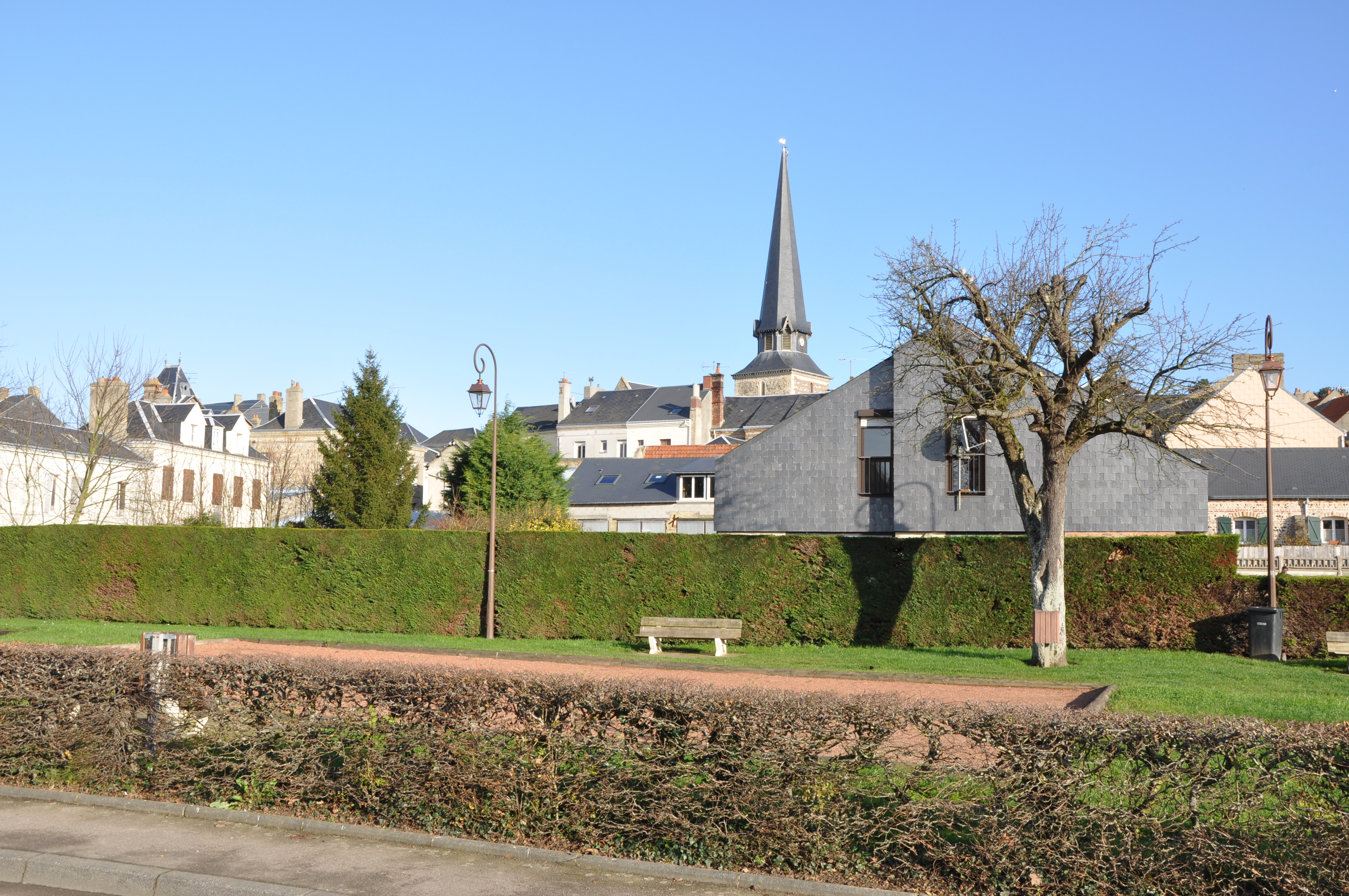 City of Octeville-sur-Mer and its church (France, Normandy)